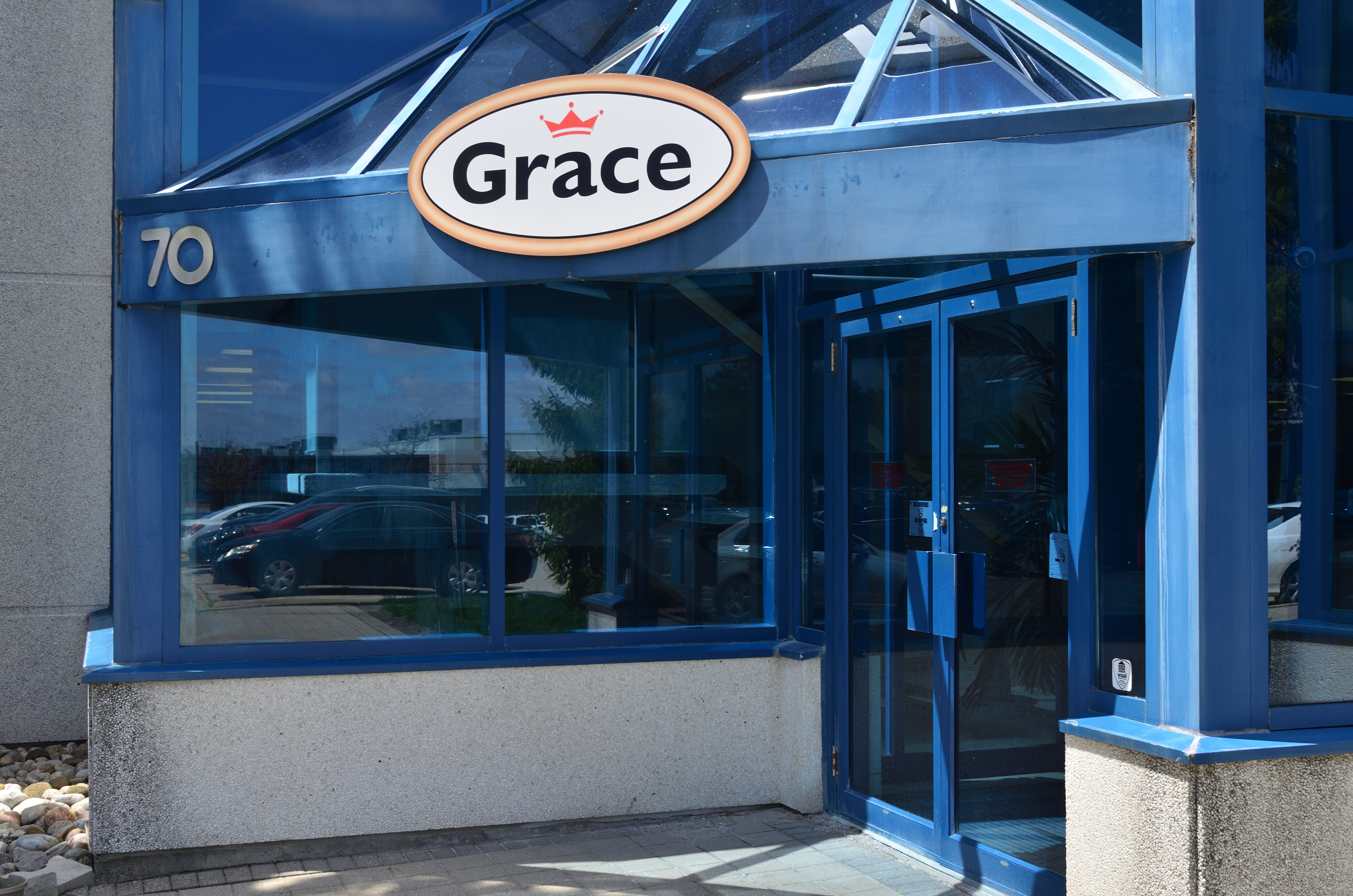 Grace Foods Canada - Address: 70 West Wilmot St, Richmond Hill